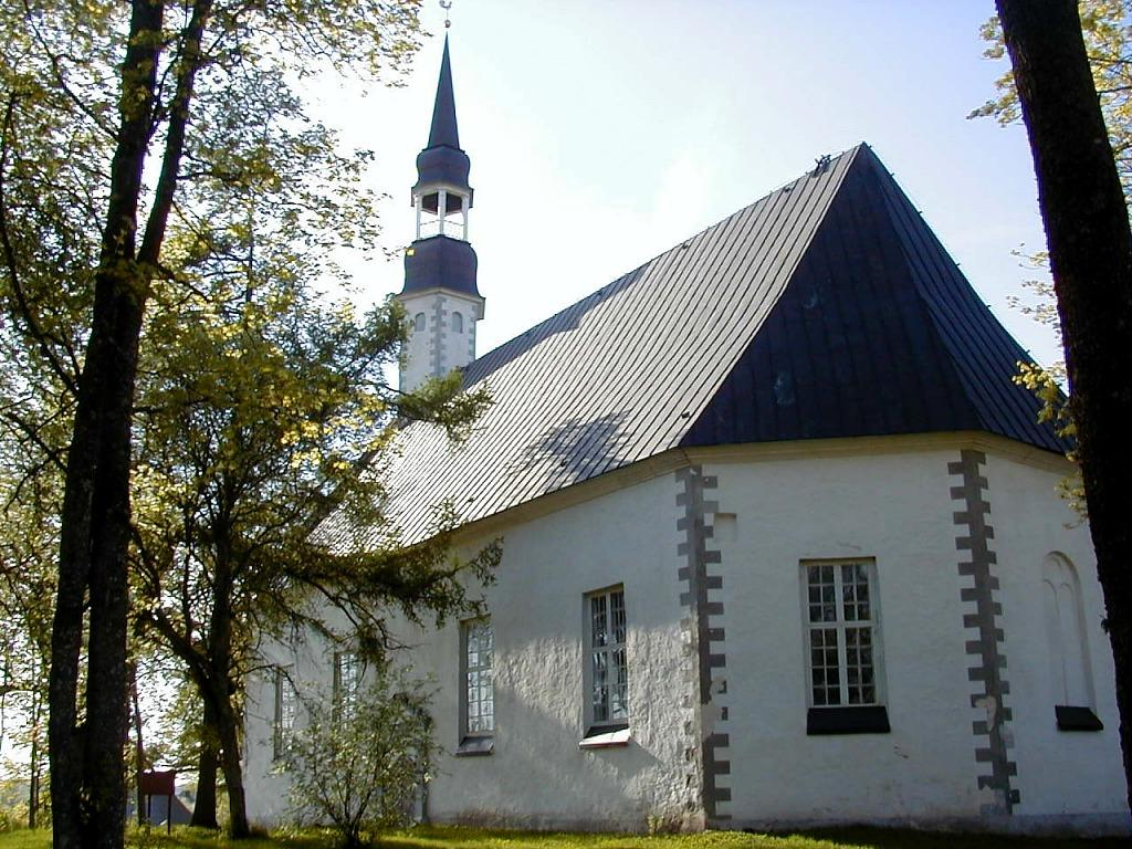 Matīši Lutheran Church